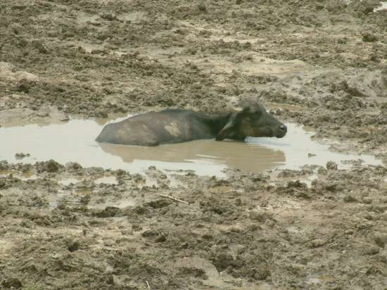 Water buffalo in India.